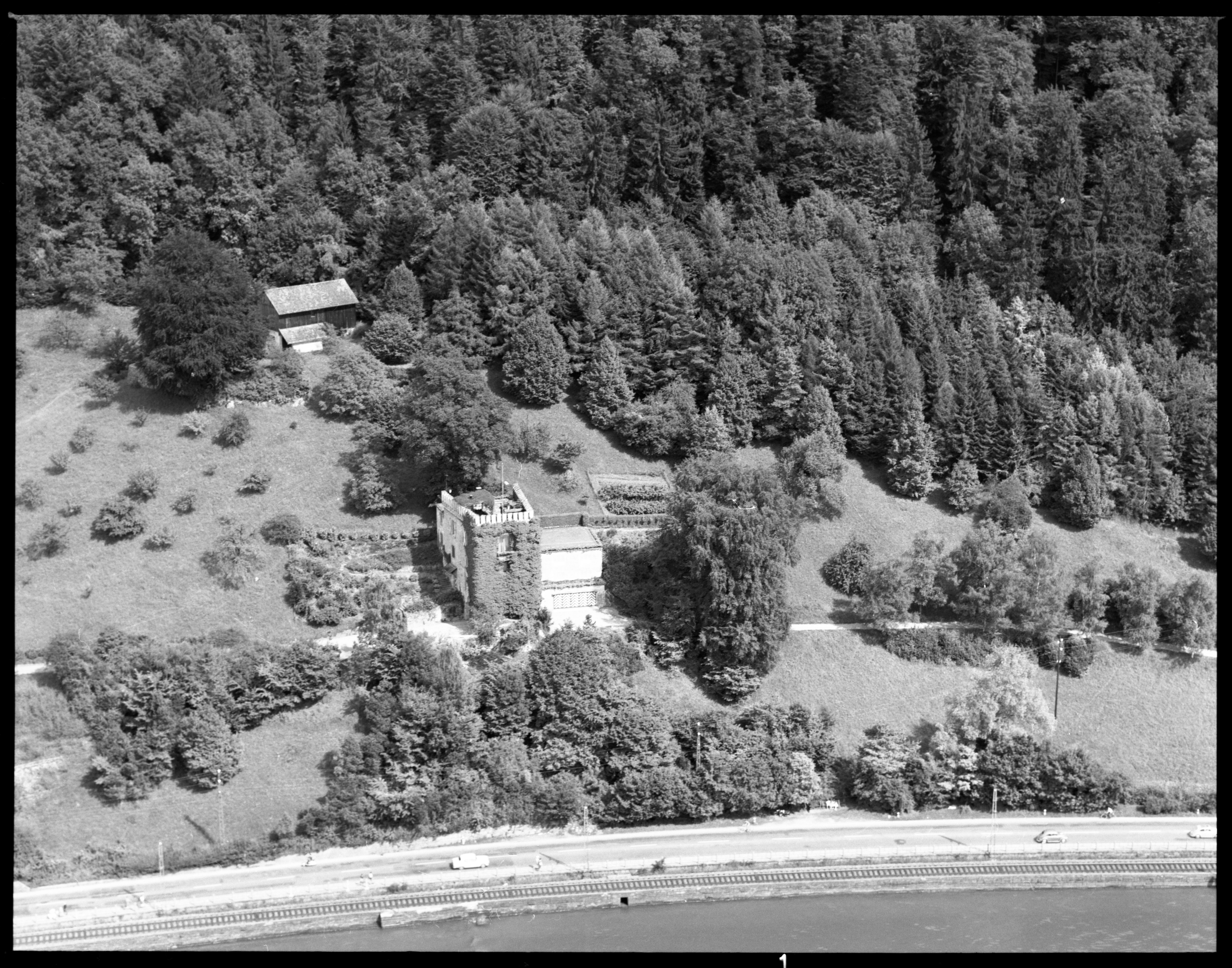 Klausturm in Lochau, Vorarlberg, Austria (Lochau, Klause, Bregenz, L 190, Lochau, Klausturm) from the collection: Historical oblique aerial photographs from the Vorarlberg State Library.